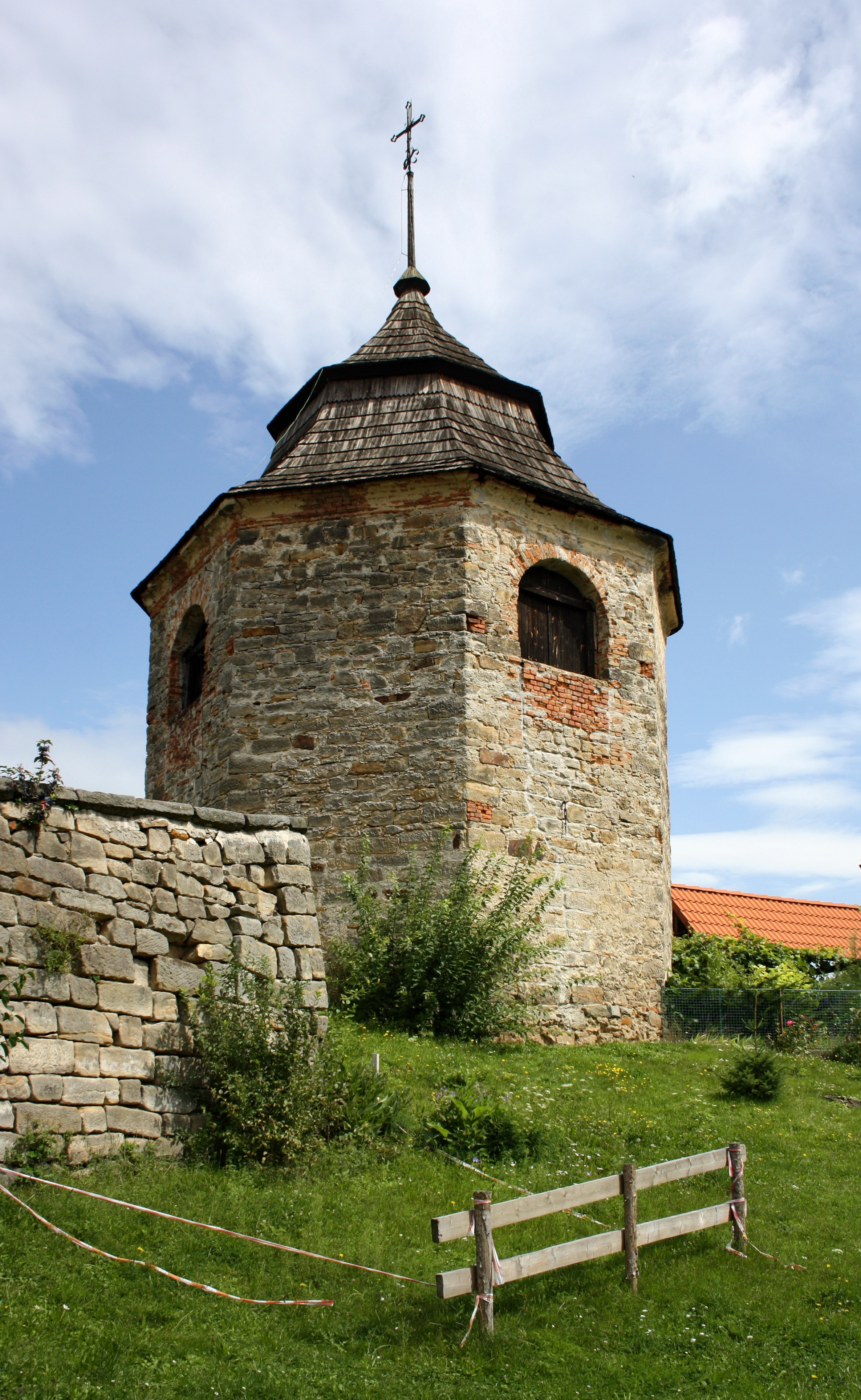 Church of the Finding of the True Cross, Nepřívěc. The bell tower.